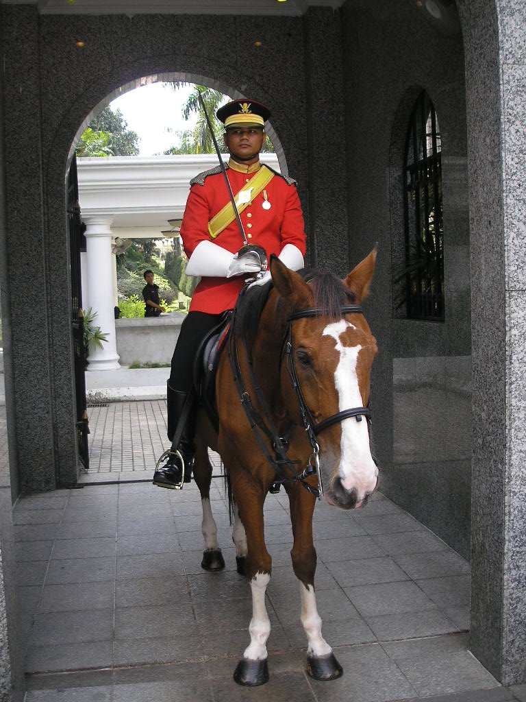 Royal guard of the Malaysian Army outside the main gate of the Istana Negara, Kuala Lumpur.